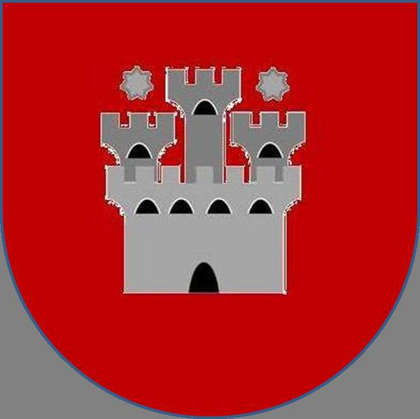 Zambrana House mark before Baeza